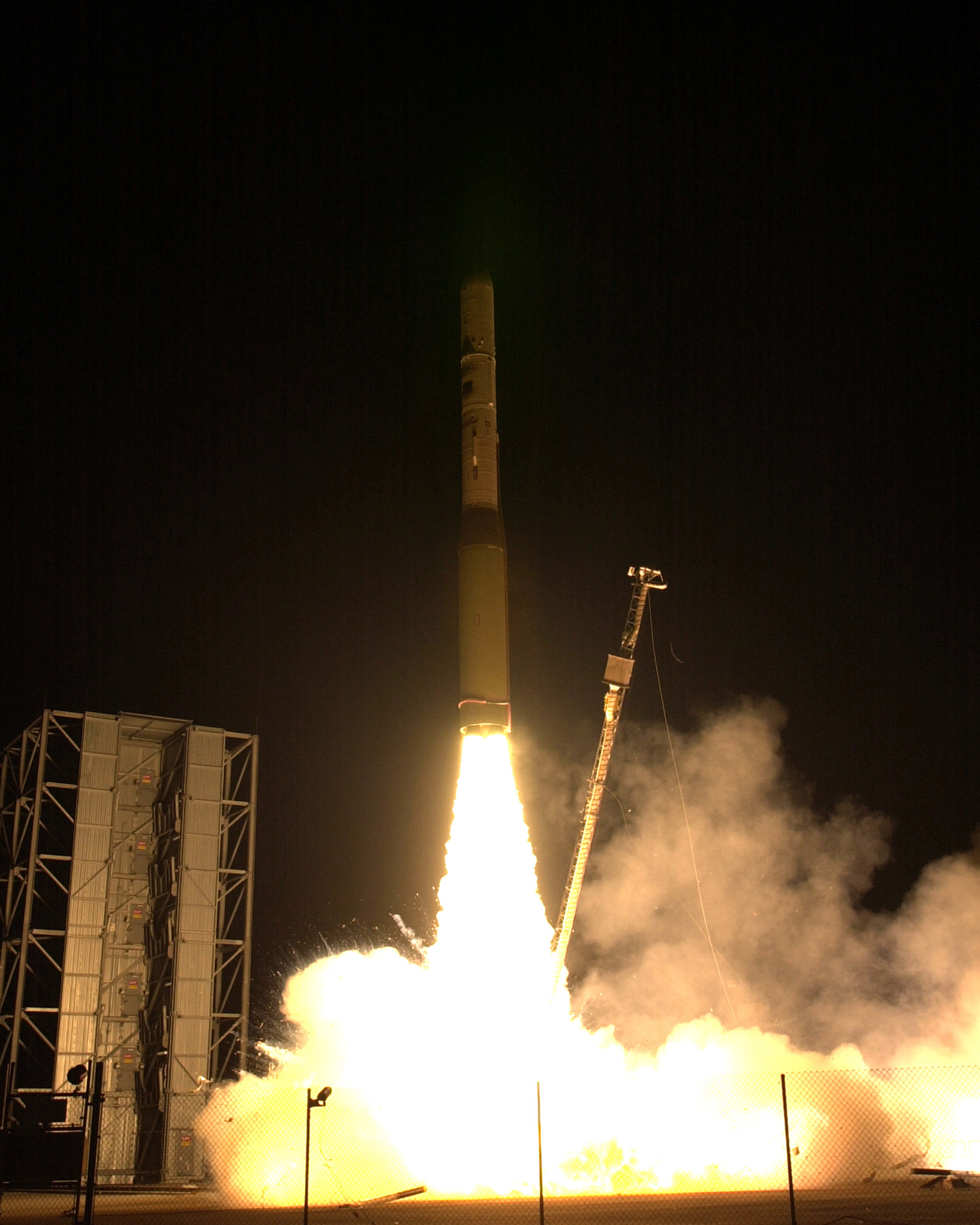 Launch of the Minotaur I launch vehicle with the Defense Advance Research Project Agency's Streak satellite from Vandenberg AFB Space Launch Complex 8.